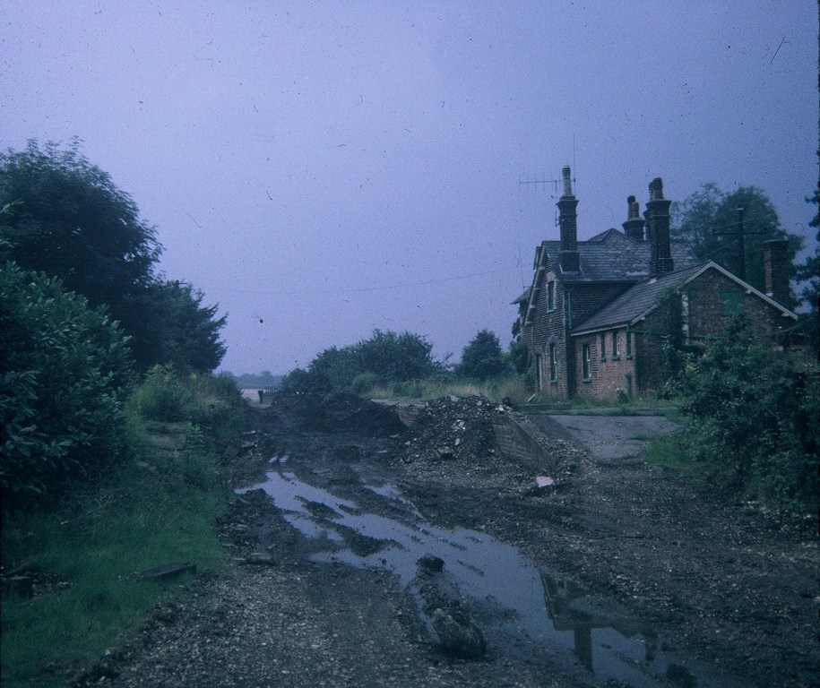 Cole Green Station, Herts. Situated in Station Road, Letty Green, this former station was on the railway line between Hertford (North) and Welwyn Garden City which closed for passenger service in June, 1951. Following complete closure on the 1st August, 1962, the track was lifted in July, 1967. The station building has since been demolished and the area is now a car park for the Cole Green Way, which is part of the Lea Valley Walk. The postcode of the site is SG14 2NS.